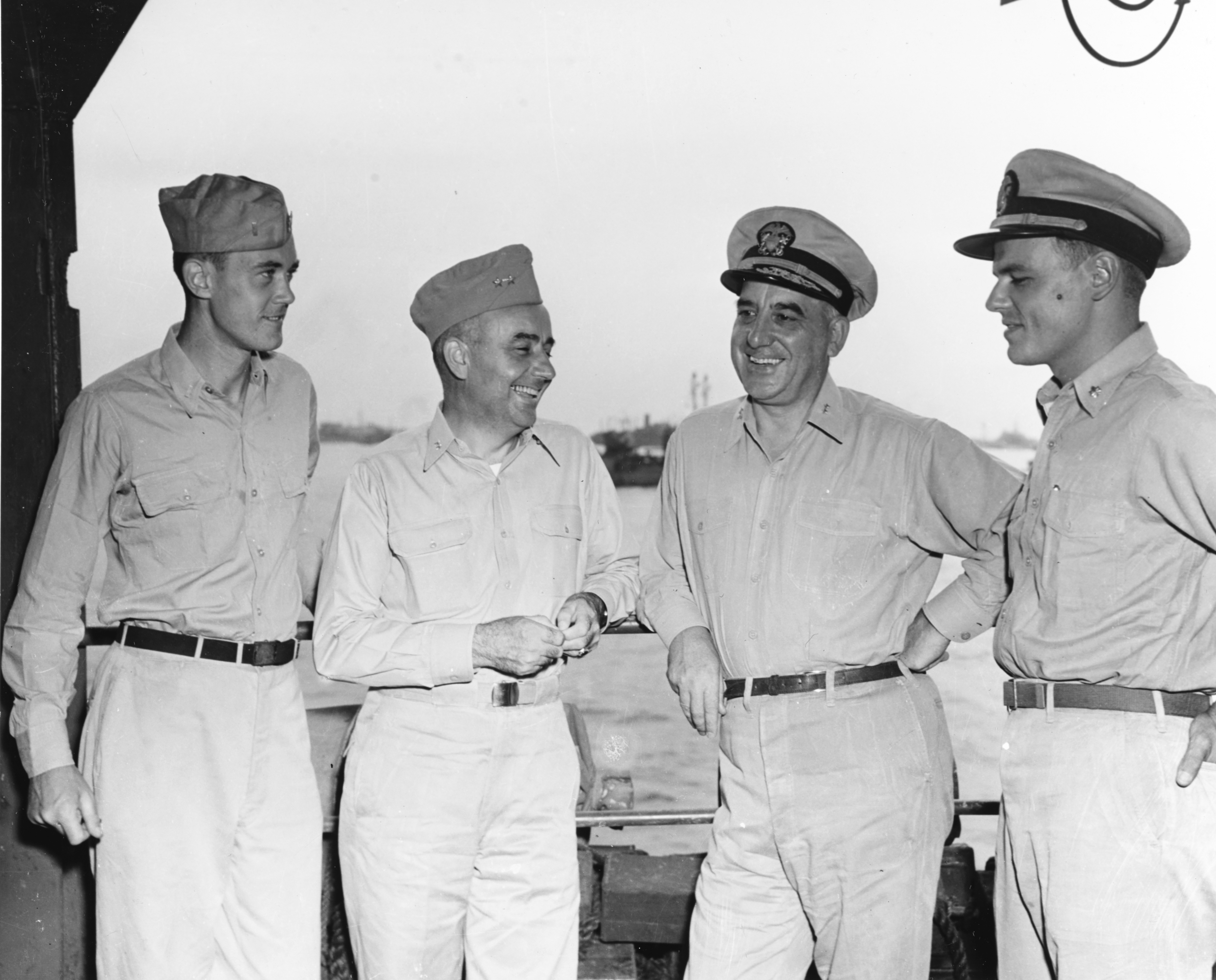 Rear Admiral Daniel E. Barbey, USN (2nd from right) with other officers at Hollandia, New Guinea, November 1944. Those present are (from left to right): Lieutenant May; Rear Admiral Arthur D. Struble; Rear Admiral Barbey; and Lieutenant Commander William S. Mailliard, USNR.